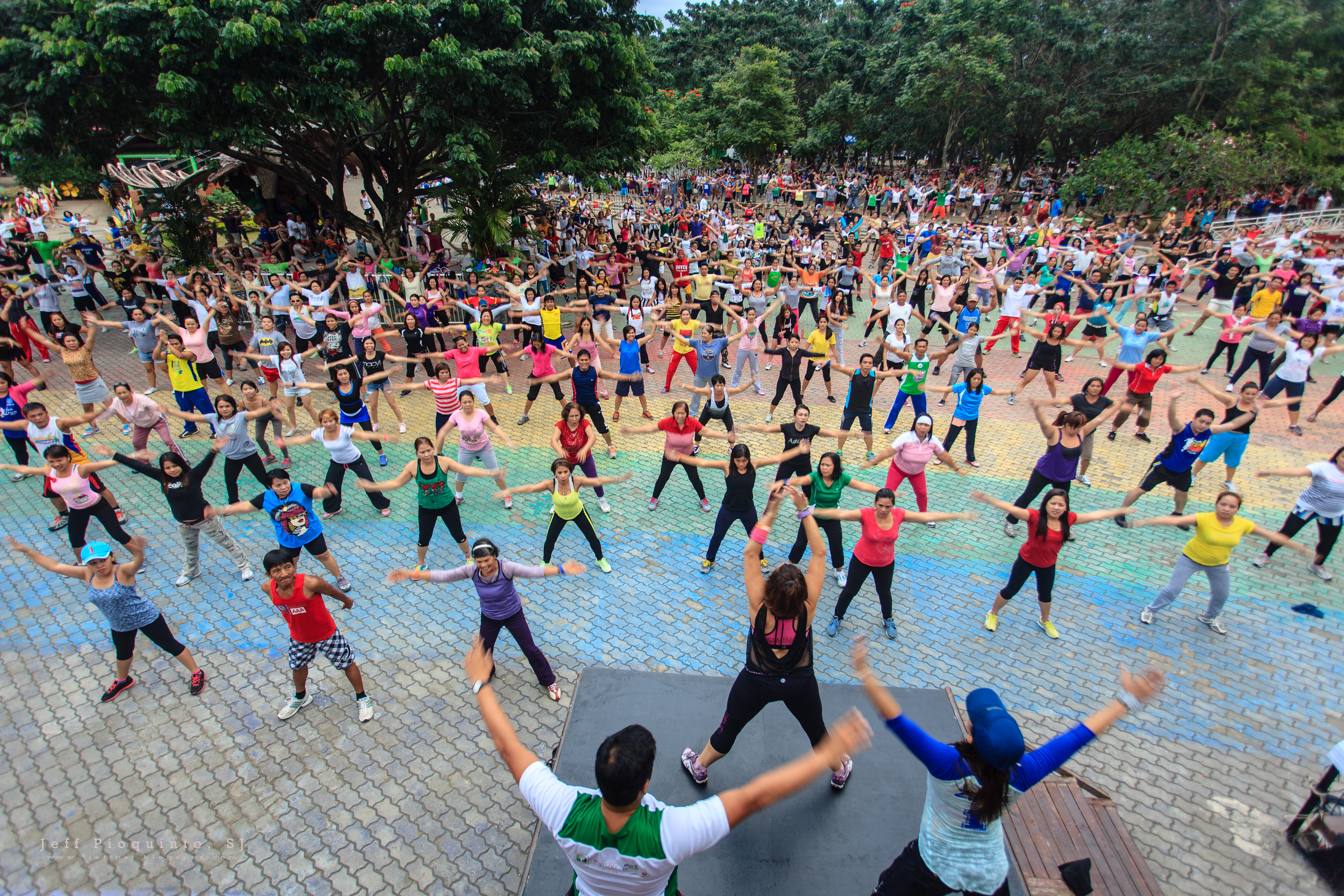 Zumba at People's Park Davao City.